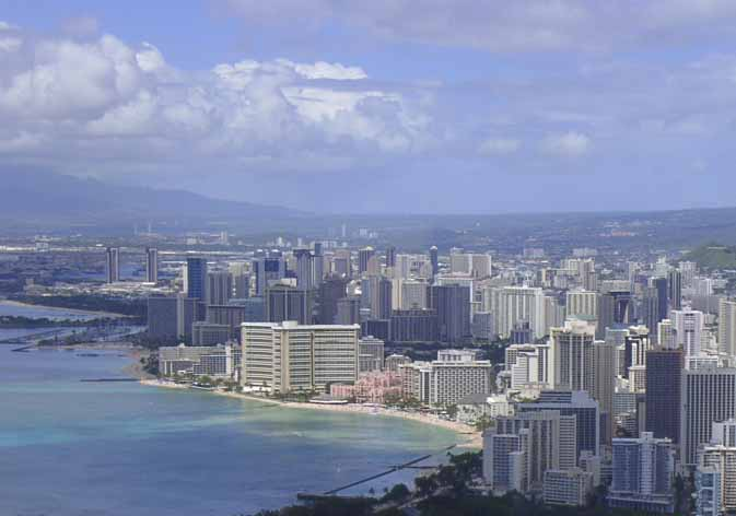 Waikiki beach Public domain, copyright disclaimed. This is a zoom and crop of an image shot roughly westward from Diamond Head on a trip on March 11, 2004.